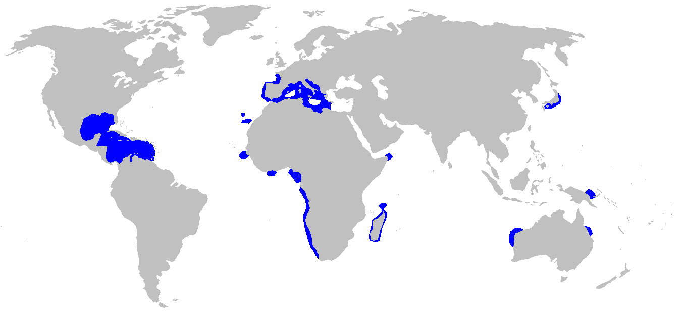 Distribution map for Centrophorus granulosus